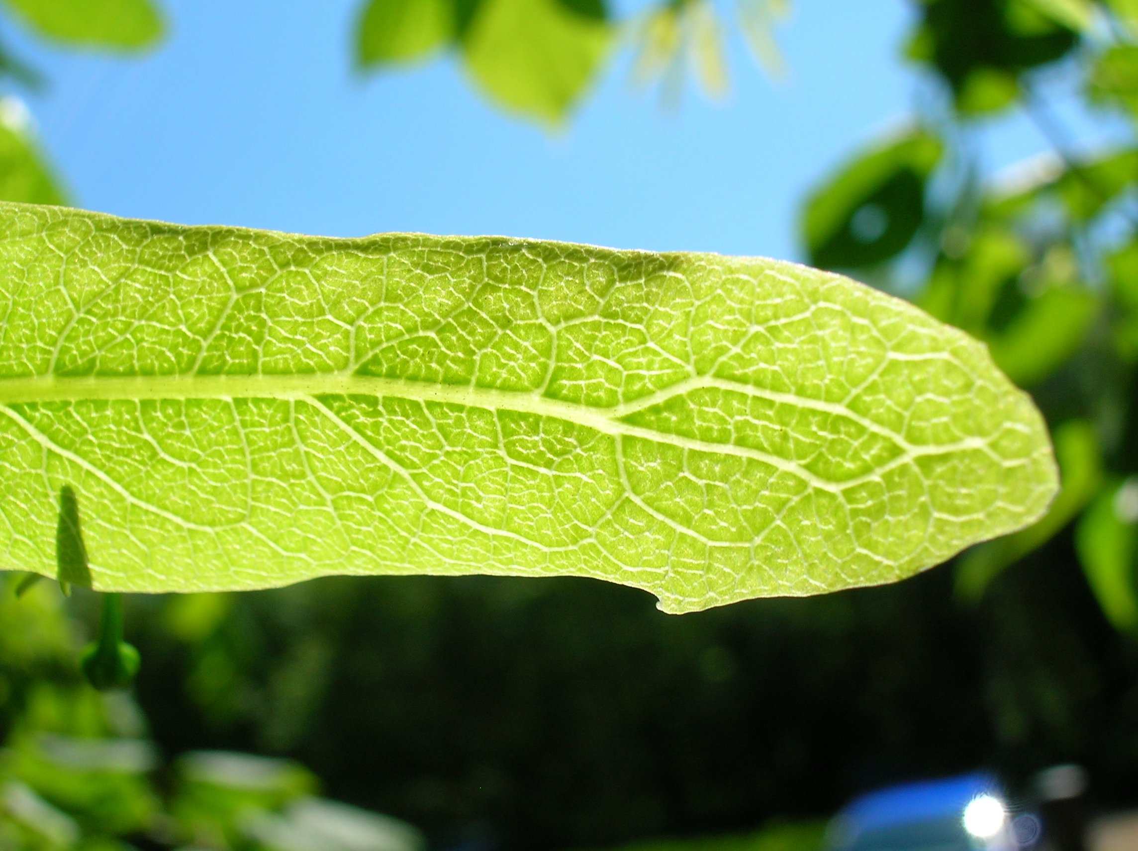 Tilia × europaea T. cordata flower veination, North Ayrshire, Eglinton, Scotland.